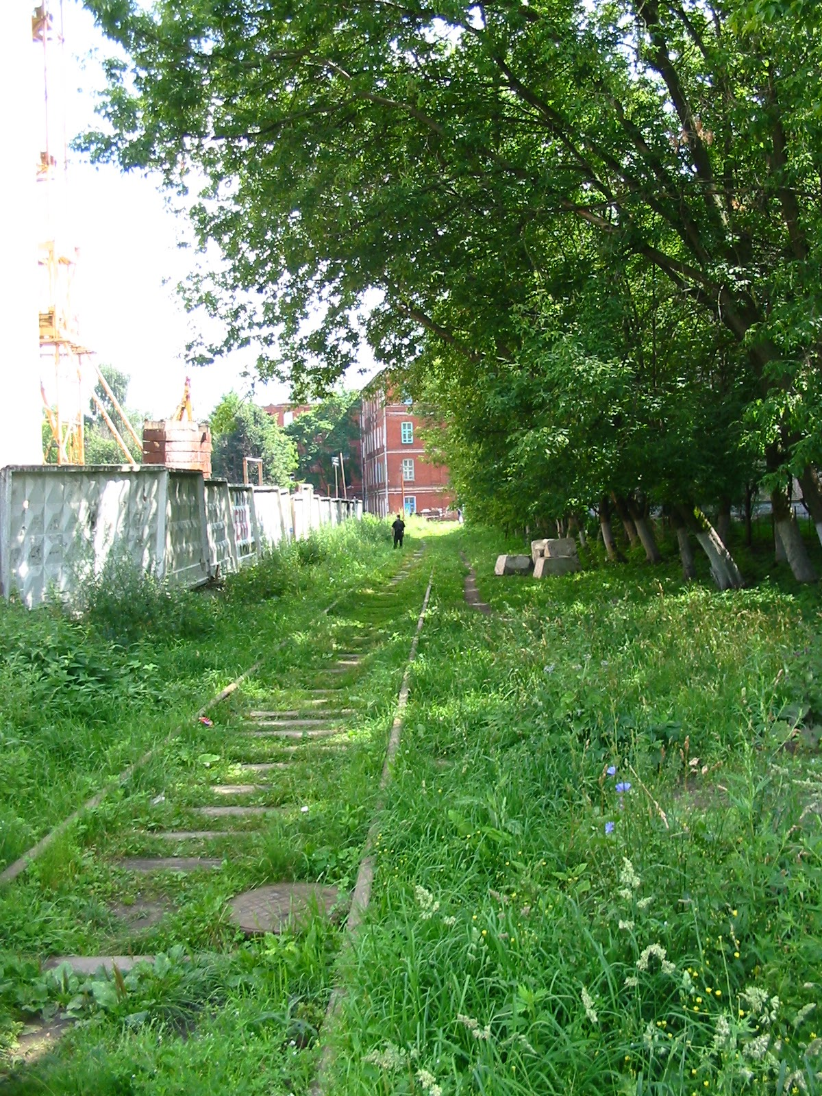 Industrial railway from Ramenskoe station.